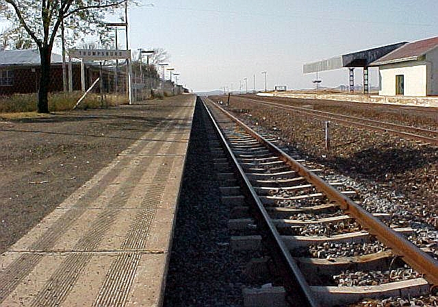 Trompsburg station, Free State